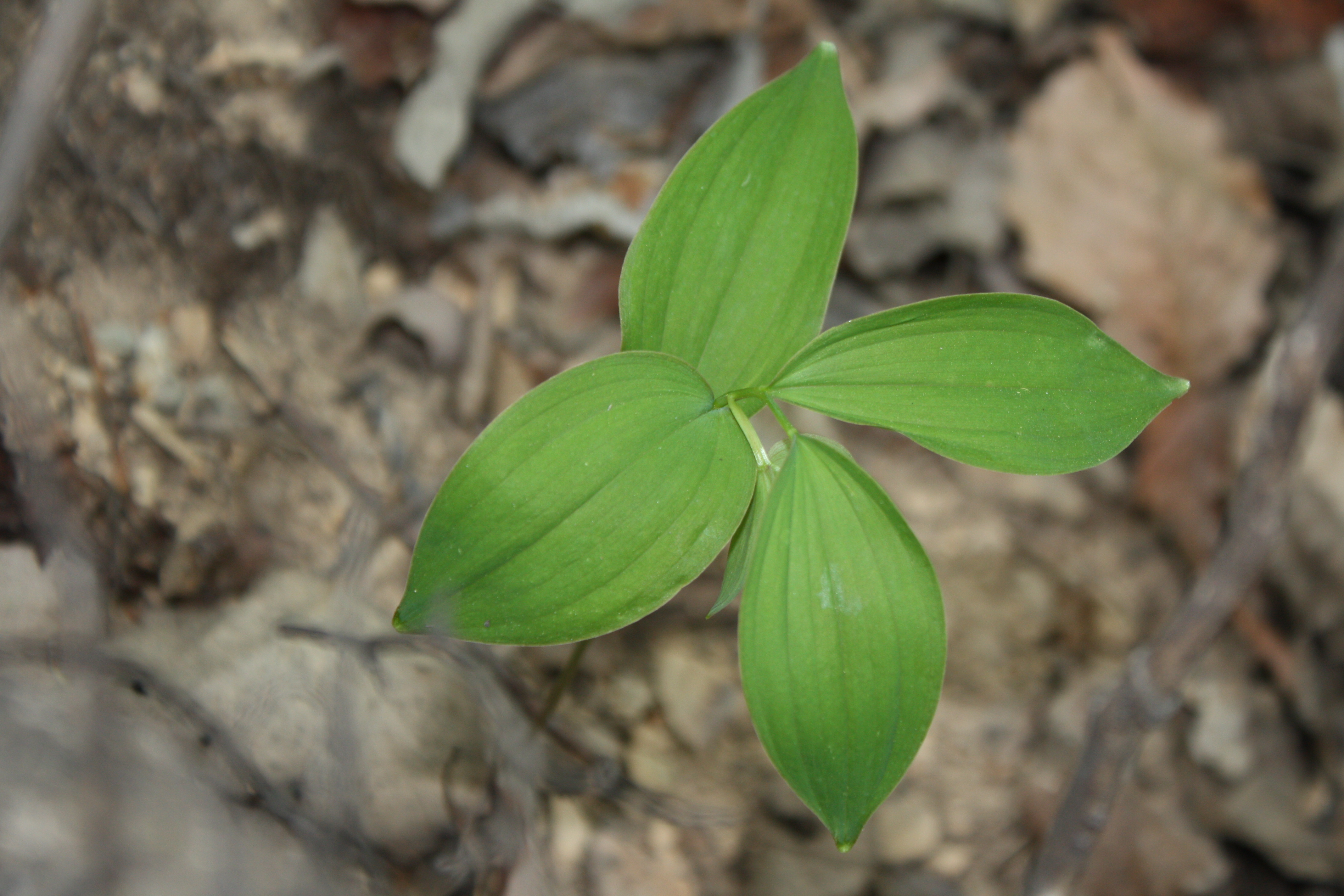 Polygonatum involucratum